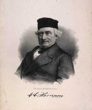 Danish piano manufacturer Conrad Christian Hornung (1802-1873), founder of Hornung & Møller